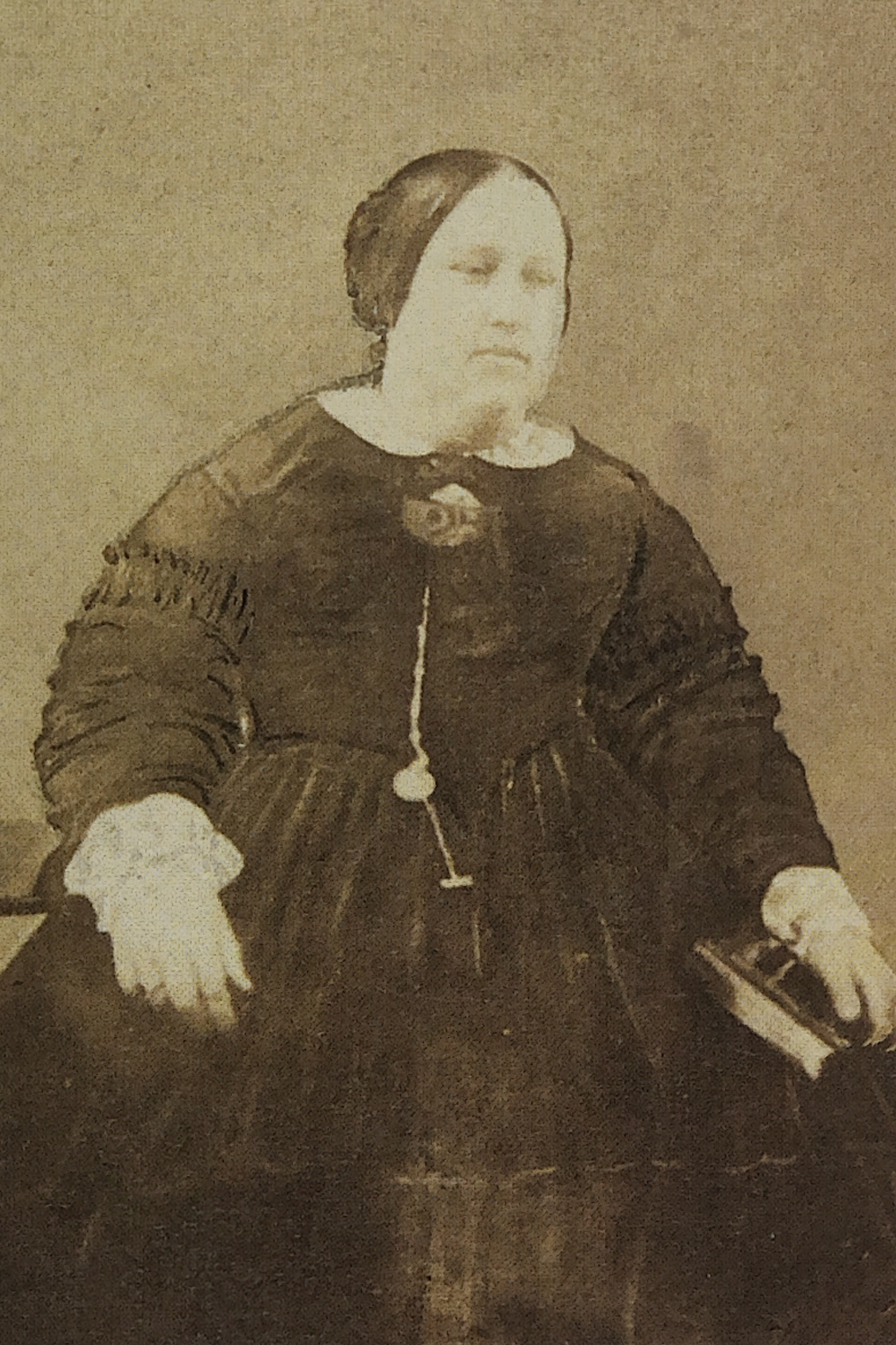 Maria II of Portugal (1819-1853). One of the only two surviving daguerreotypes of the queen